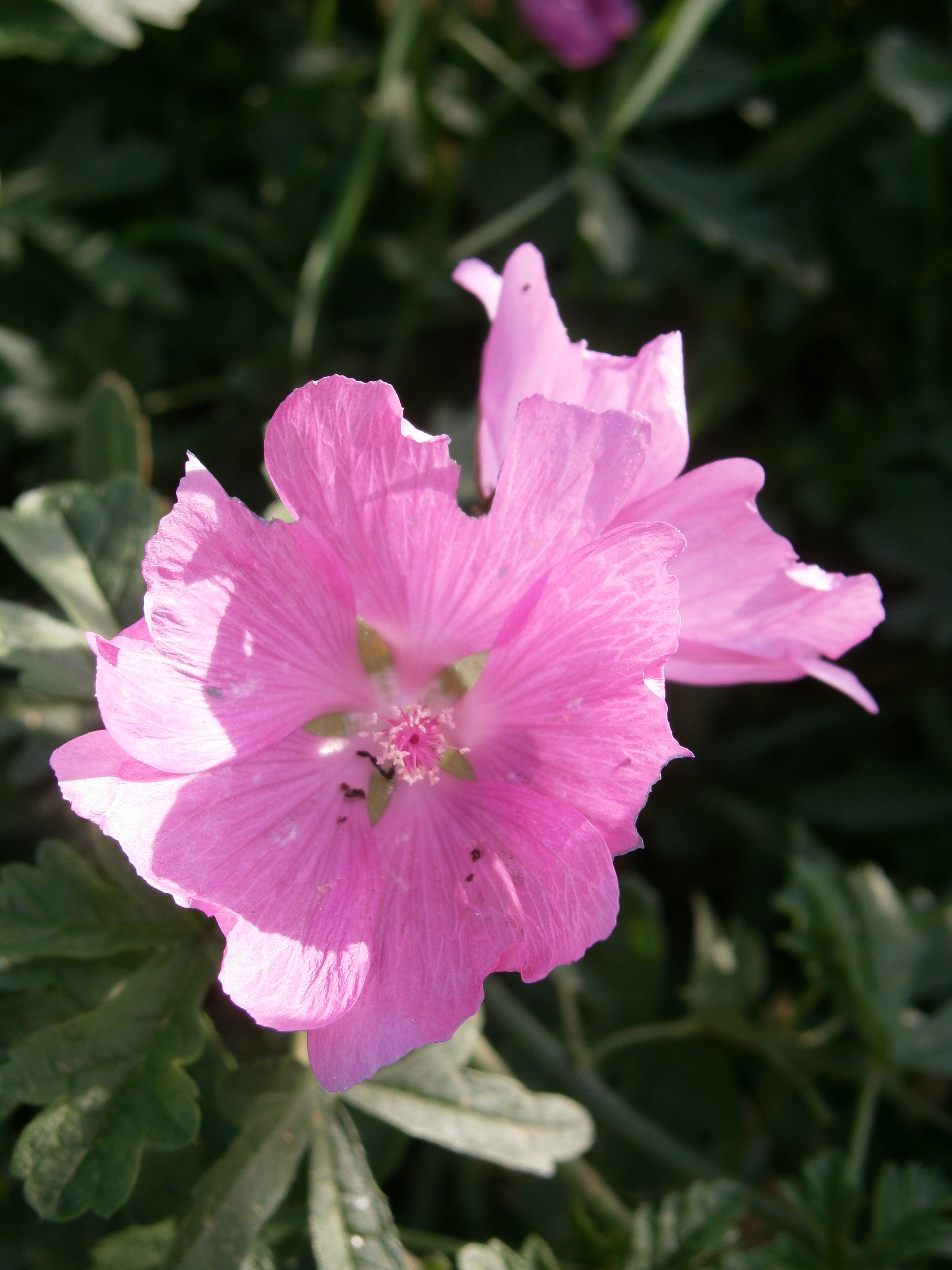 Malva alcea